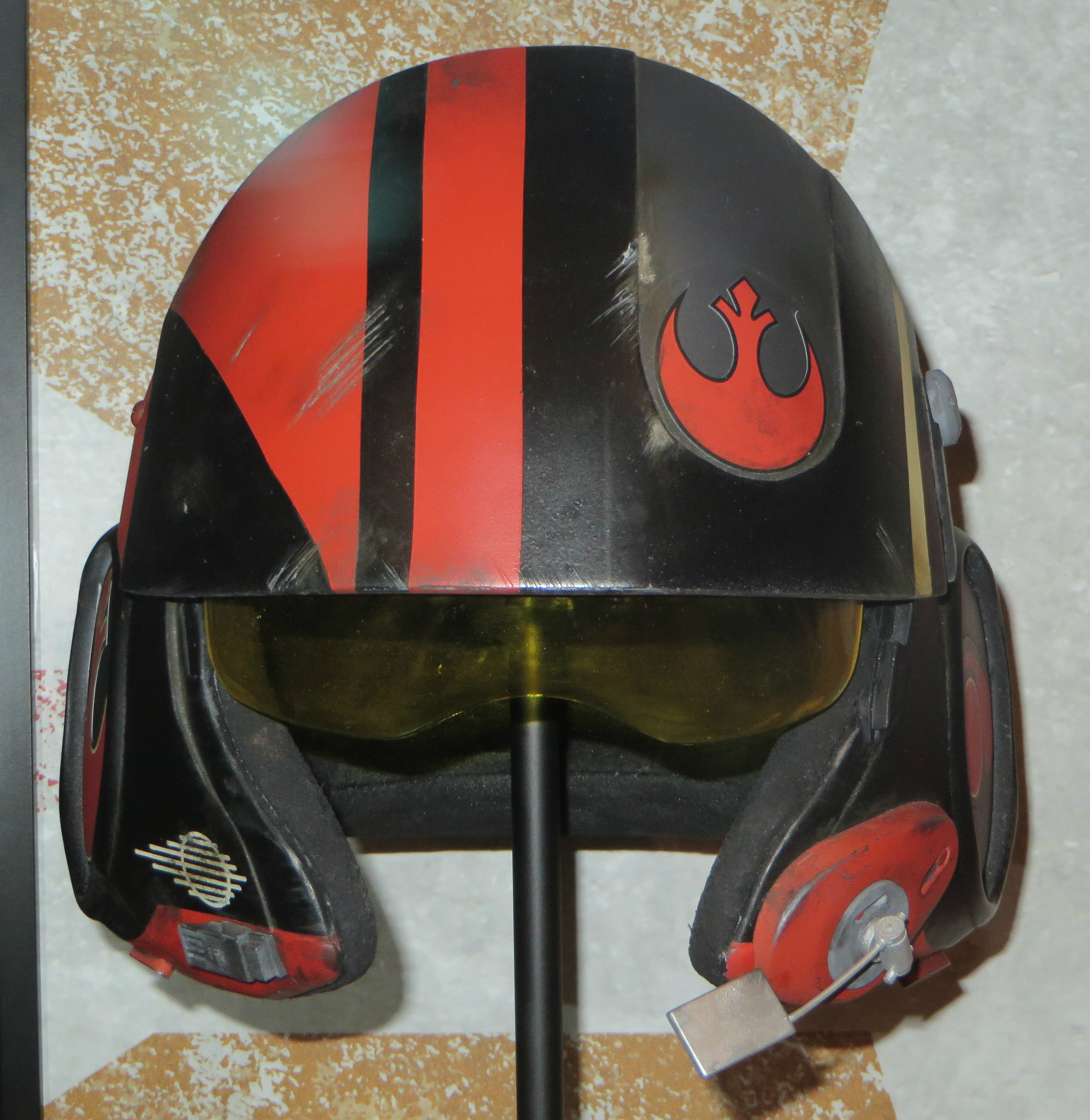 Poe Dameron's X-wing pilot helmet on display at Star Wars Launch Bay at Disney's Hollywood Studios.